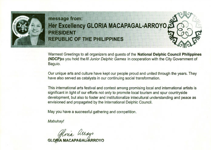 Message from President of Republic of the Philippines to the III Junior Delphic Games, 2007